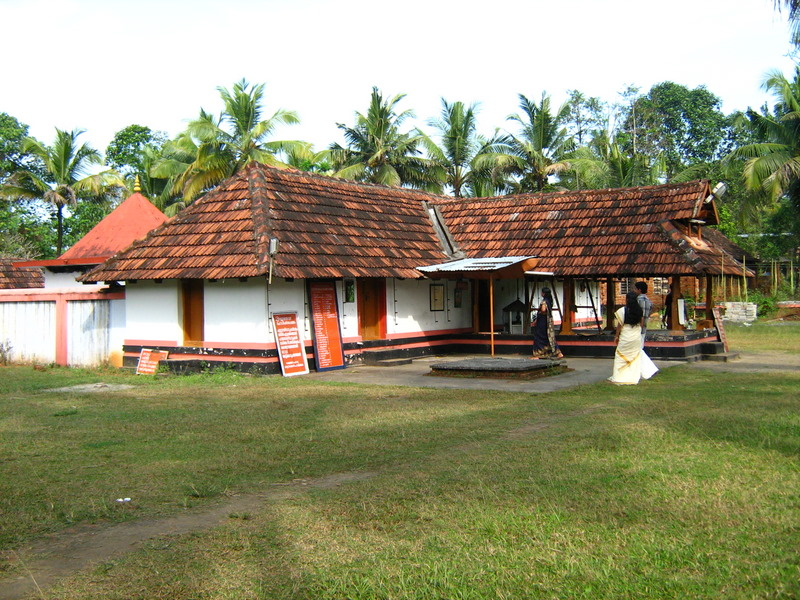 Blandevar temple picture